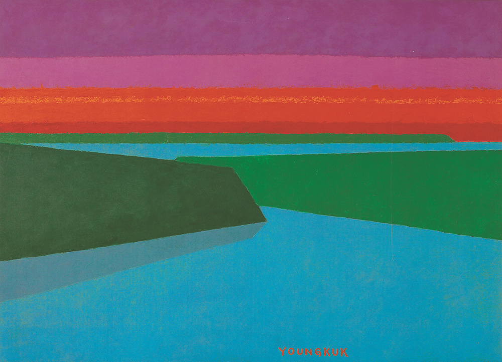 1994 oil on canvas 66x91cm